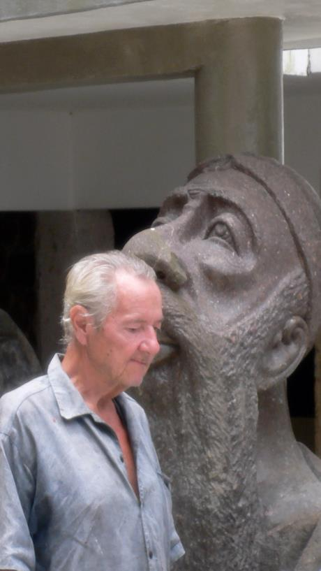 a Portrait of Rolf Schulz